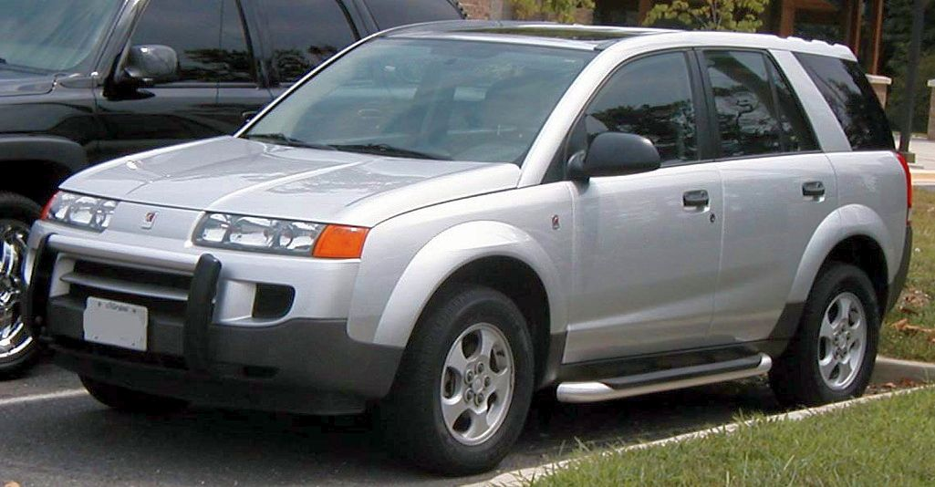 2002-2005 Saturn VUE photographed in USA.